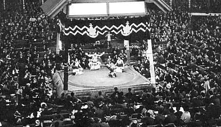 Dohyo at Former Ryogoku Kokugikan Hall in 1936